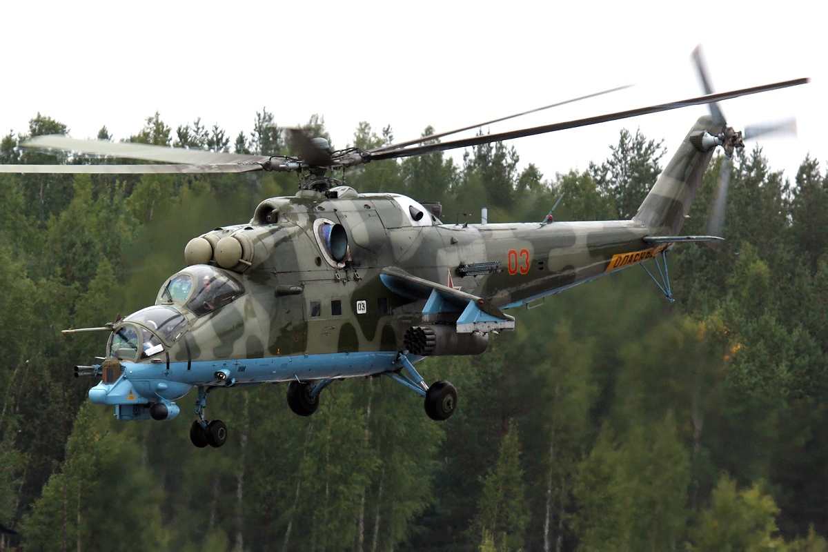 Russian Air Force Mil Mi-24PN